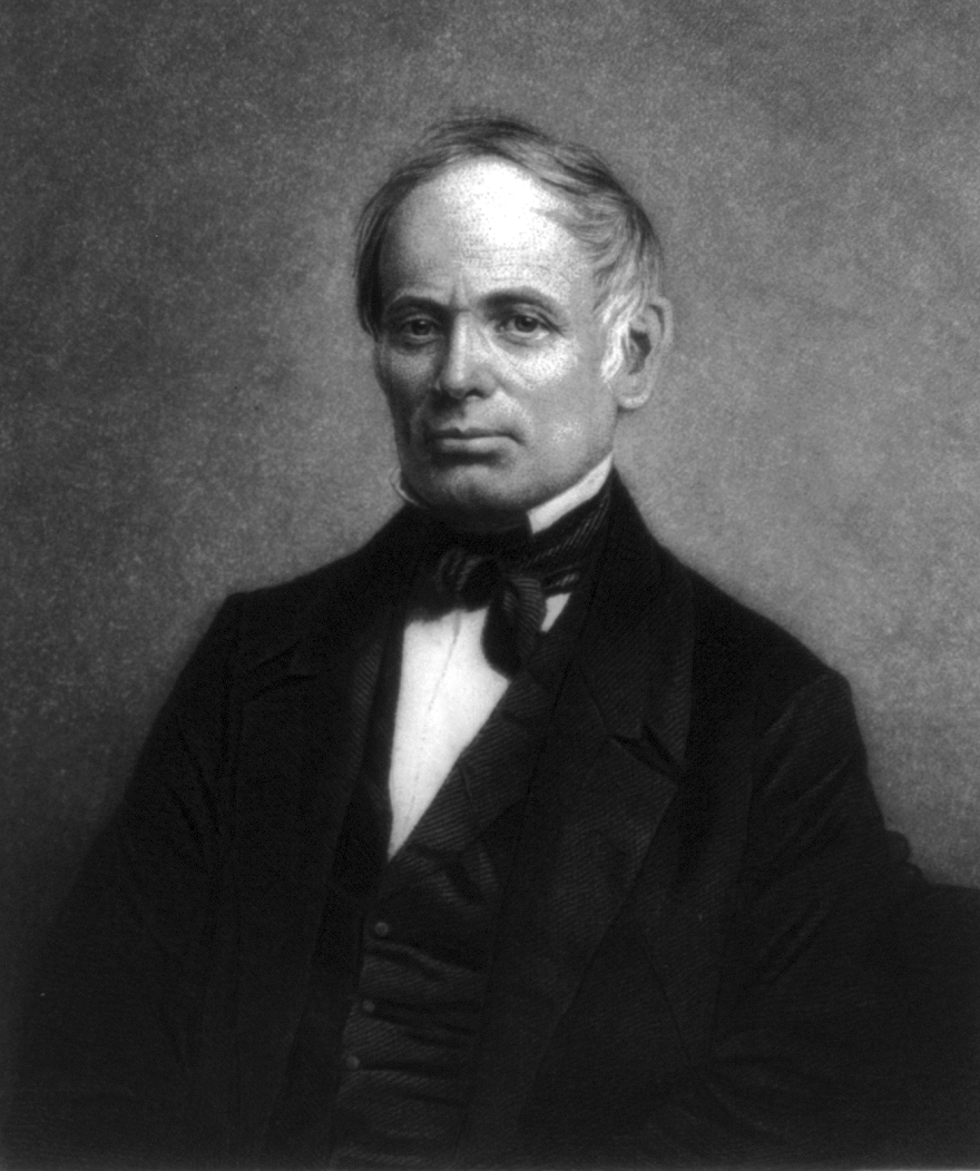 Adin Ballou. Frontispiece of Autobiography of Adin Ballou (1896).